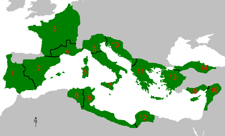 map of the Roman republic, with provinces